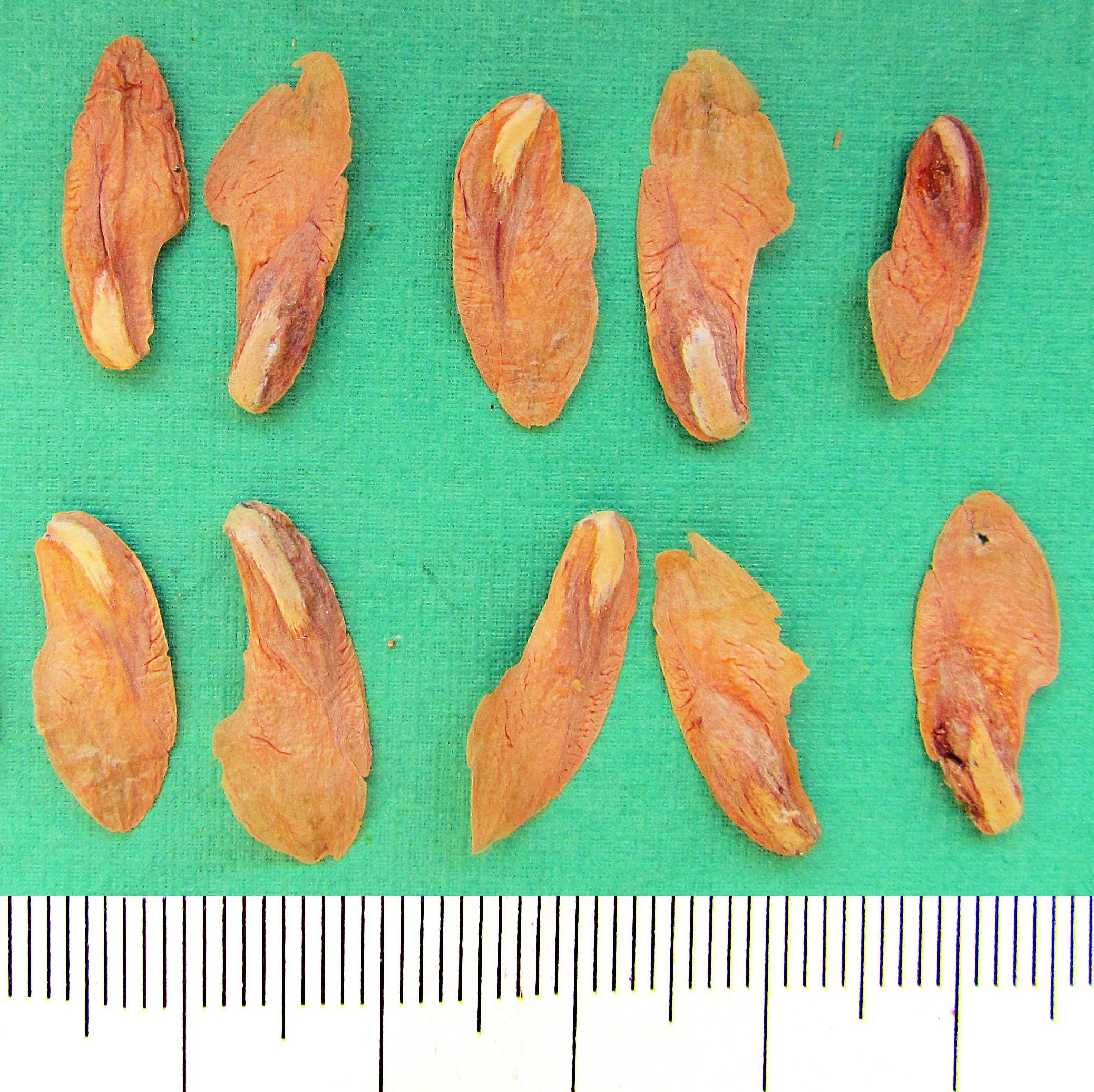 Calocedrus decurrens seeds with wings